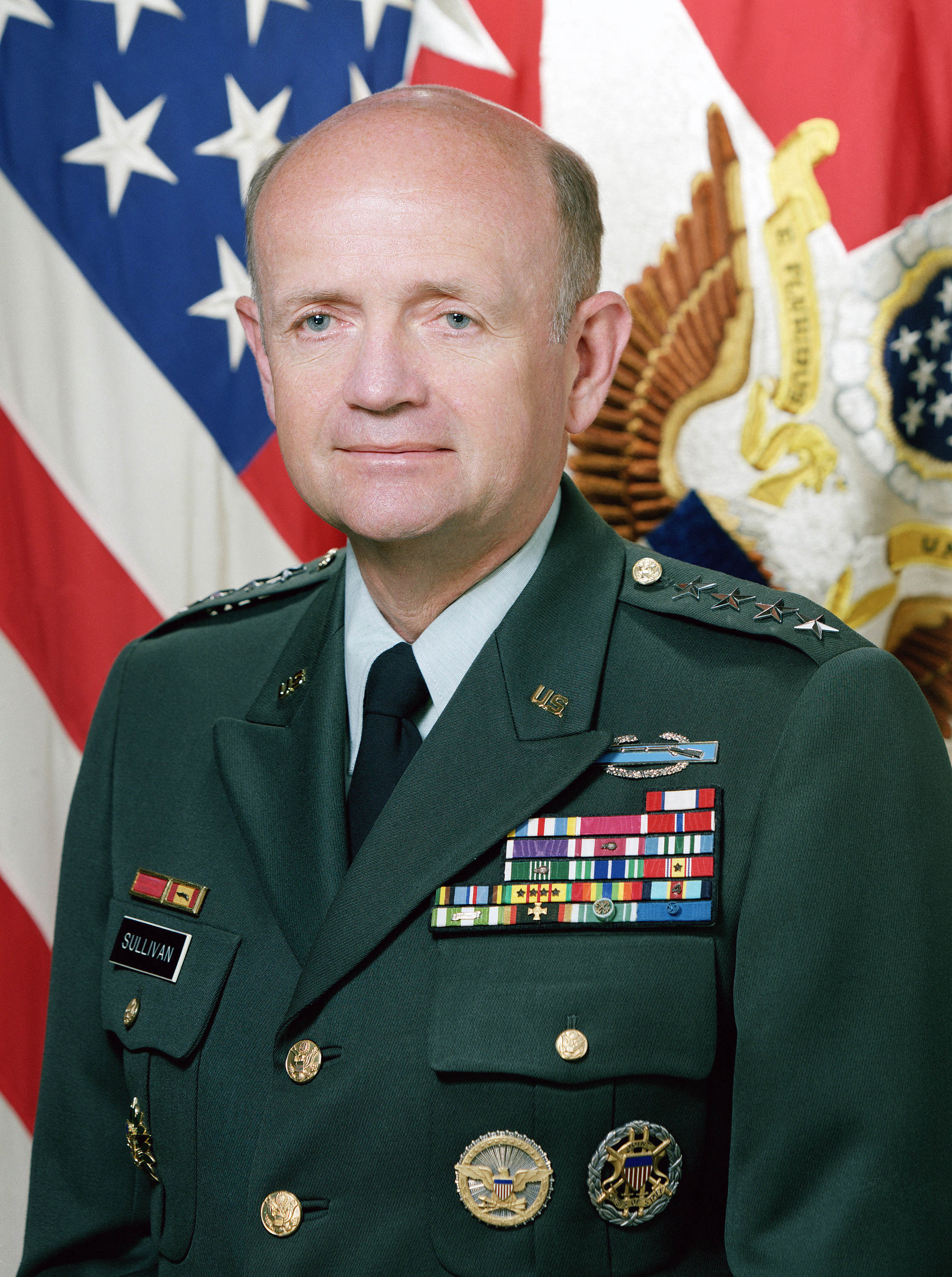 Gordon R. Sullivan, the former Chief of Staff of the U.S. Army, in November 1992.